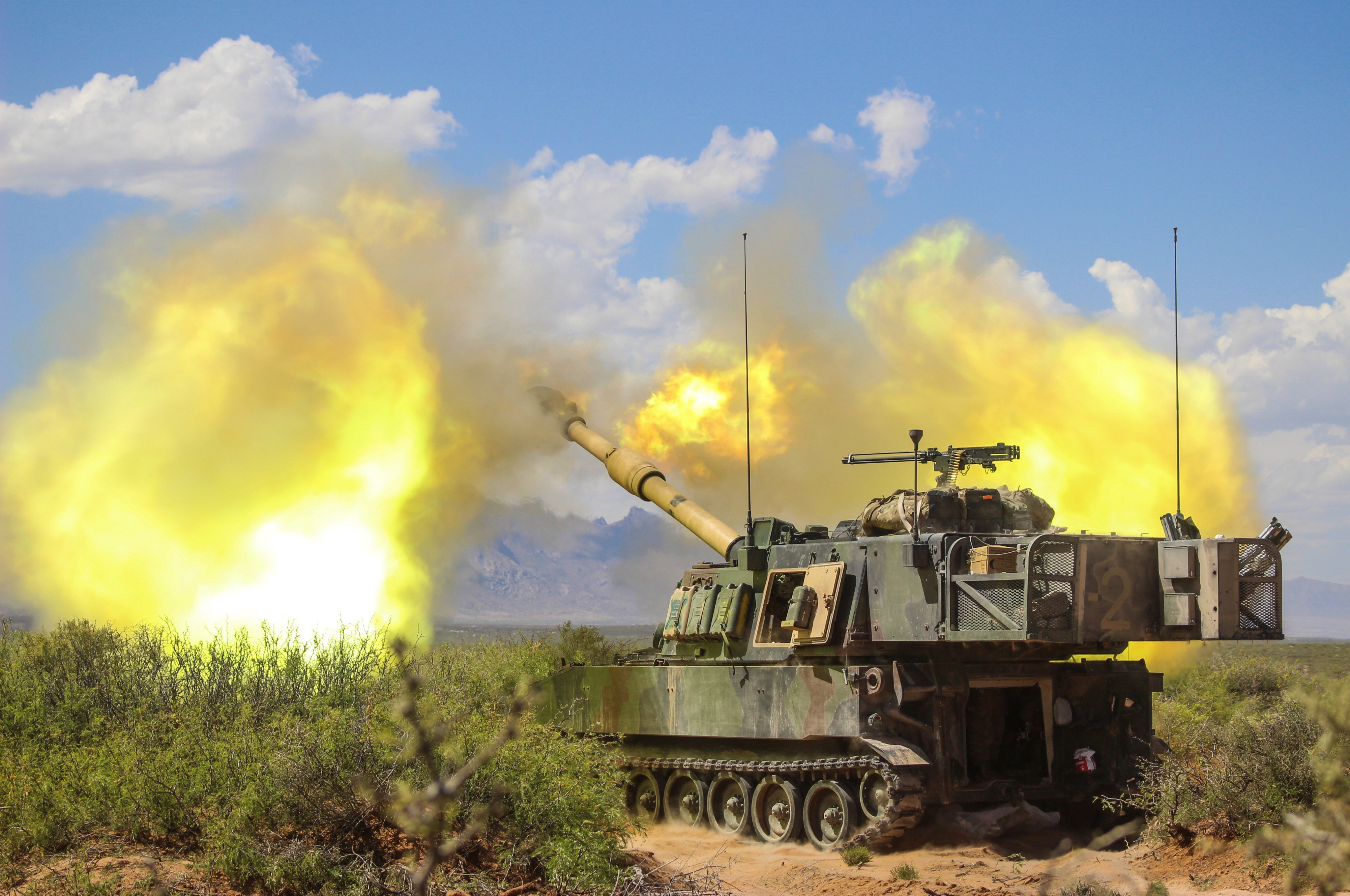 Battery B, 2d Battalion 114th Field Artillery Regiment hone their gunnery skills as they conduct table XVIII near Dona Ana, N.M. April 28, 2018. Table XVIII consist of the entire battalion conducting fire missions together for qualifications. (U.S. Army National Guard photo by Sgt. Brittany Johnson.)